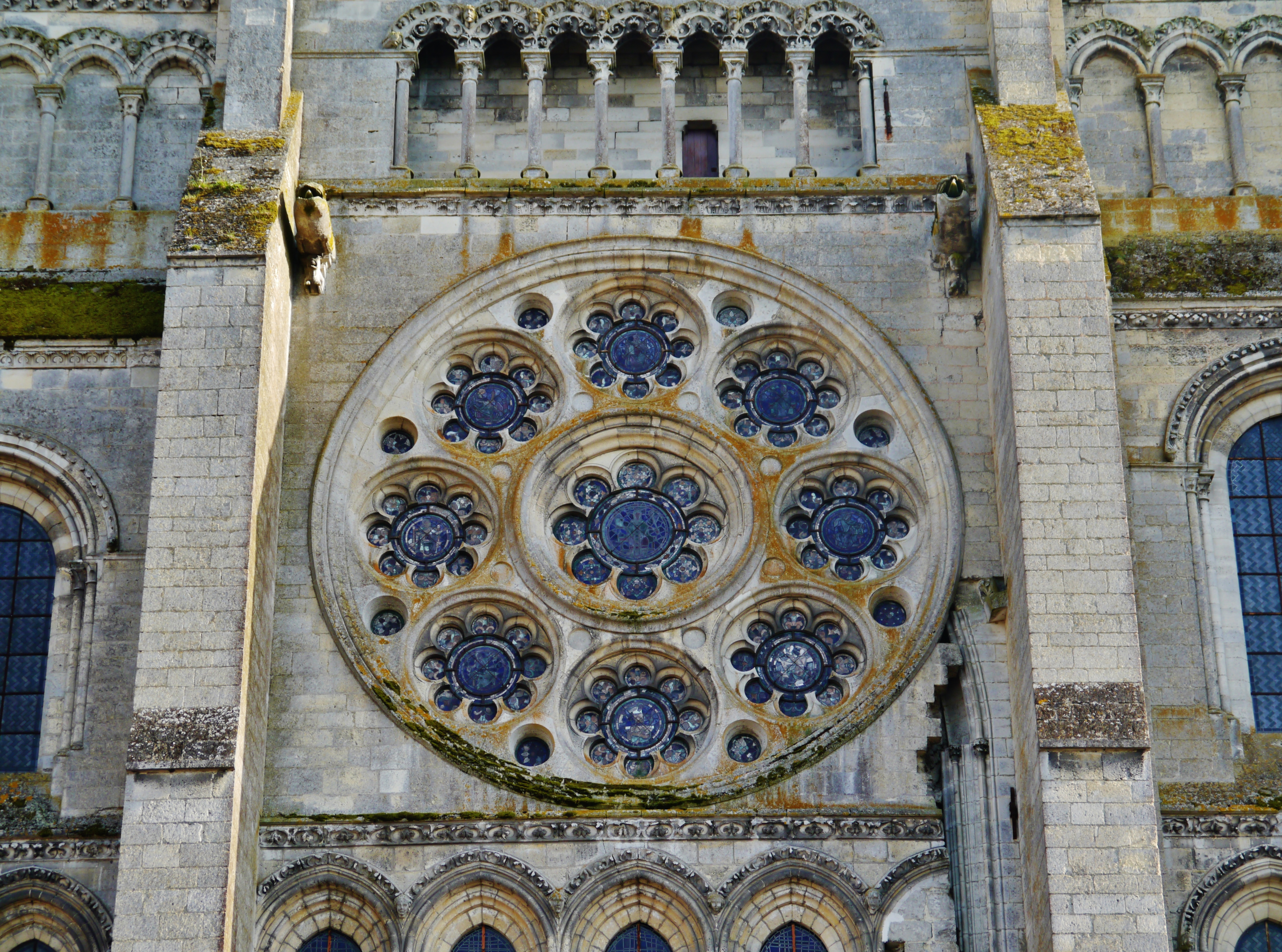 Northern Rose Window of the Cathedral of Our Lady, Laon, Department of Aisne, Region of Upper France (former Picardy), France